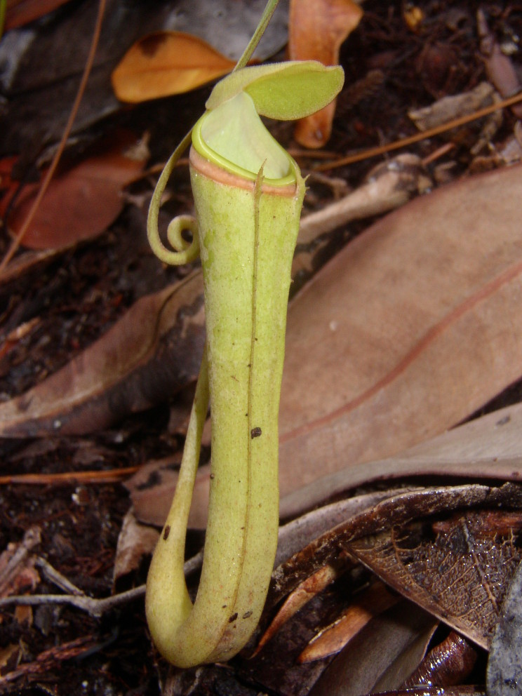 Nepenthes albomarginata